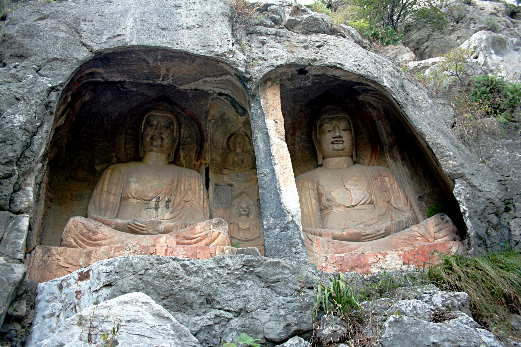 Photograph of carved sculptures on the Thousand Buddha Cliff in Shandong Province, China.